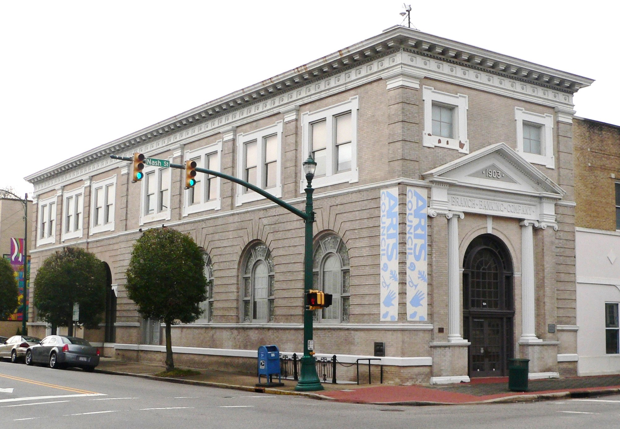 Branch Banking Company building, now occupied by Arts Council of Wilson, located at 124 E. Nash Street (west corner of Nash and Goldsboro Streets) in Wilson, North Carolina; seen from the east-northeast.